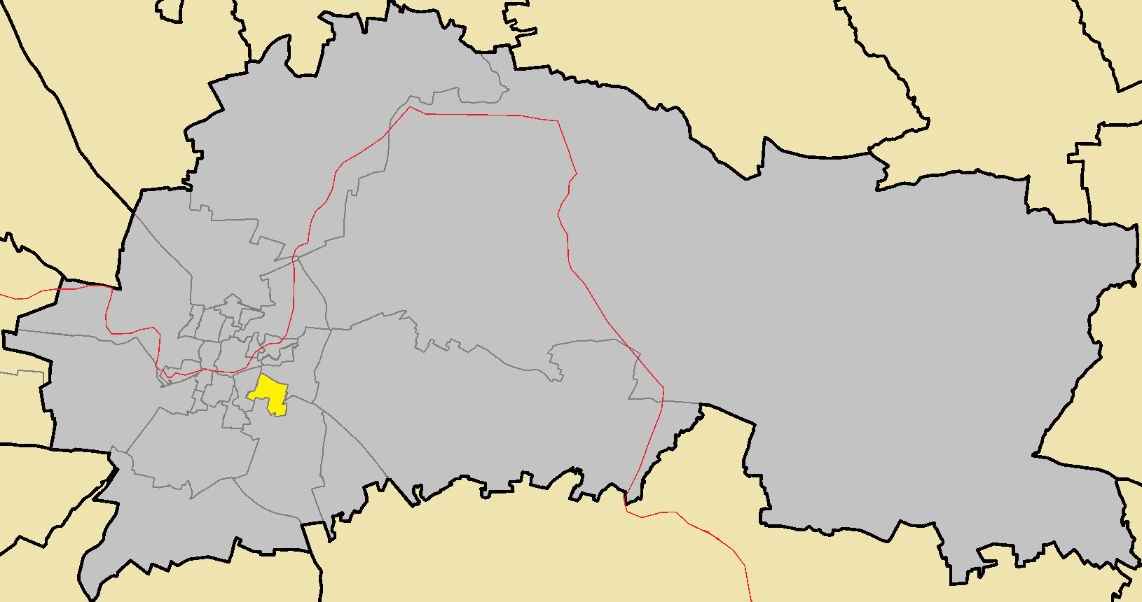 Agios Ioannis in Nicosia Municipality.